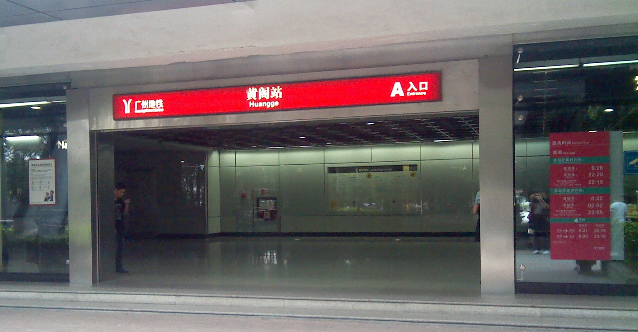 黄阁站A出入口